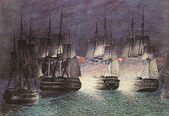 Battle of Zealand Point, where the ship-of-the-line Prins Christian Fredrik was sunk in 1808. (Detail from a Watercolor by A G. Gross / The Maritime Museum, Helsingør).